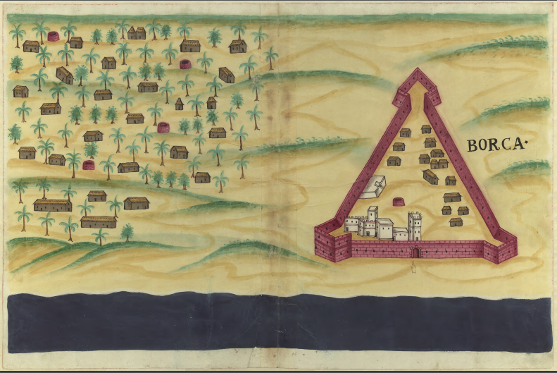 Picture of the Portuguese Fortress of Barka ( Borca ) in the 17th century book of António Bocarro